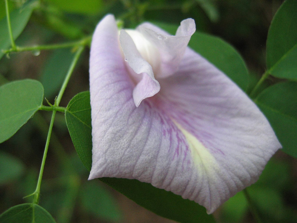 Found in Great Falls National Park, Virginia.